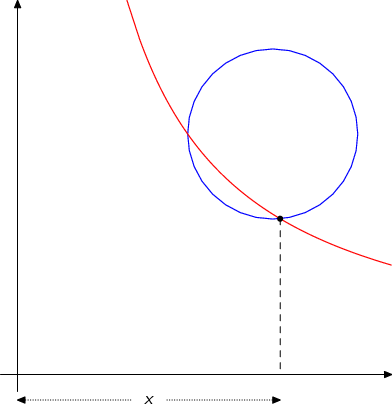 Omar Khayyám's method of solving third degree equations. In order to solve the equation x^3 + 200x = 20x^2 + 2000, one considers the equation x^4 - 30x^3 + 400x^2 - 4000x + 20000 = 0, which has the same solutions, besides 10. The solutions of this equation are the x-coordinates of the intersection points of the circle x^2 - 30x +y^2 - sqrt(800)y + 400 = 0 and the hyperbola xy = sqrt(20000).